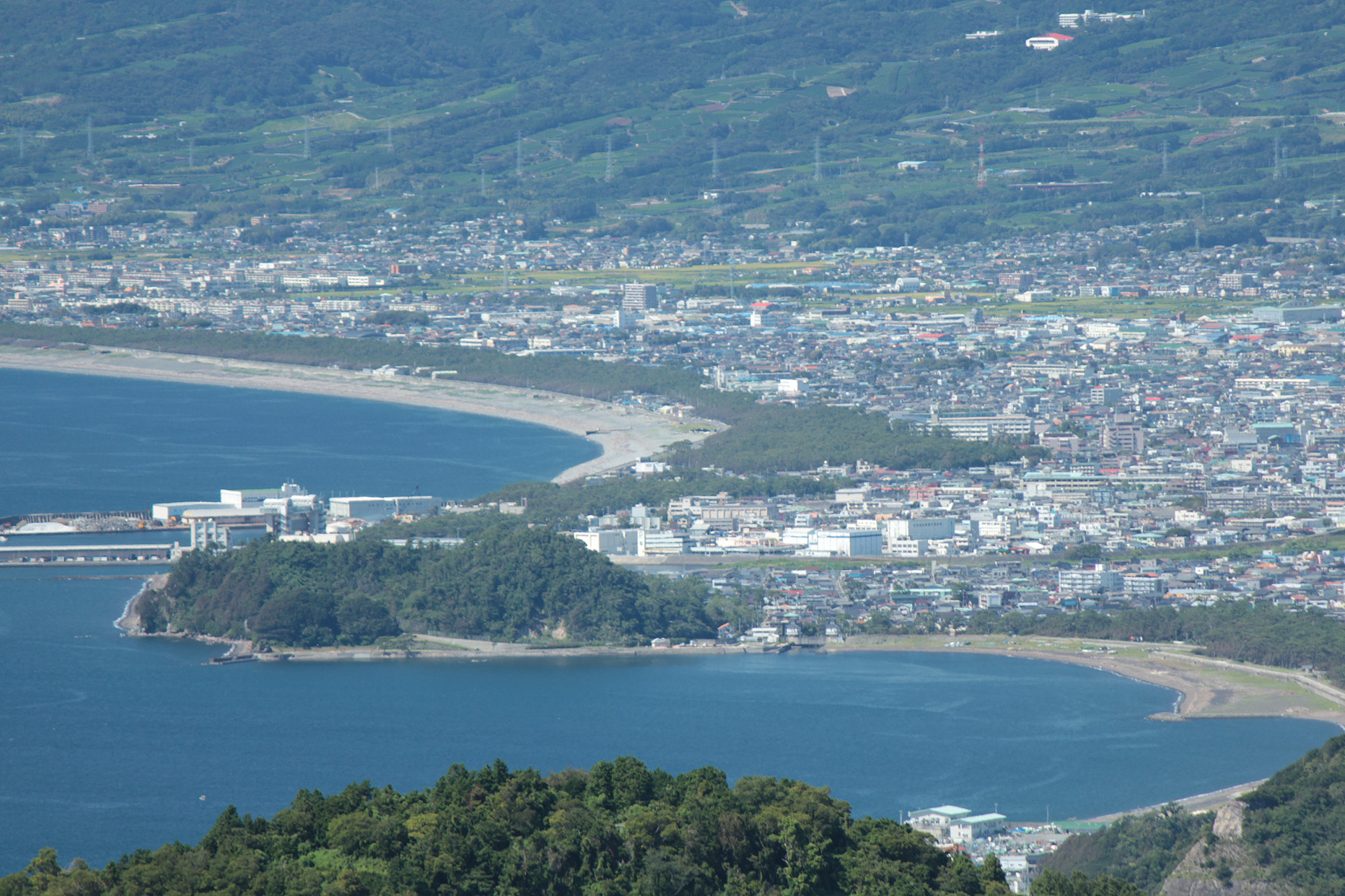 View of Numazu. Mount Ushibuse on the left.